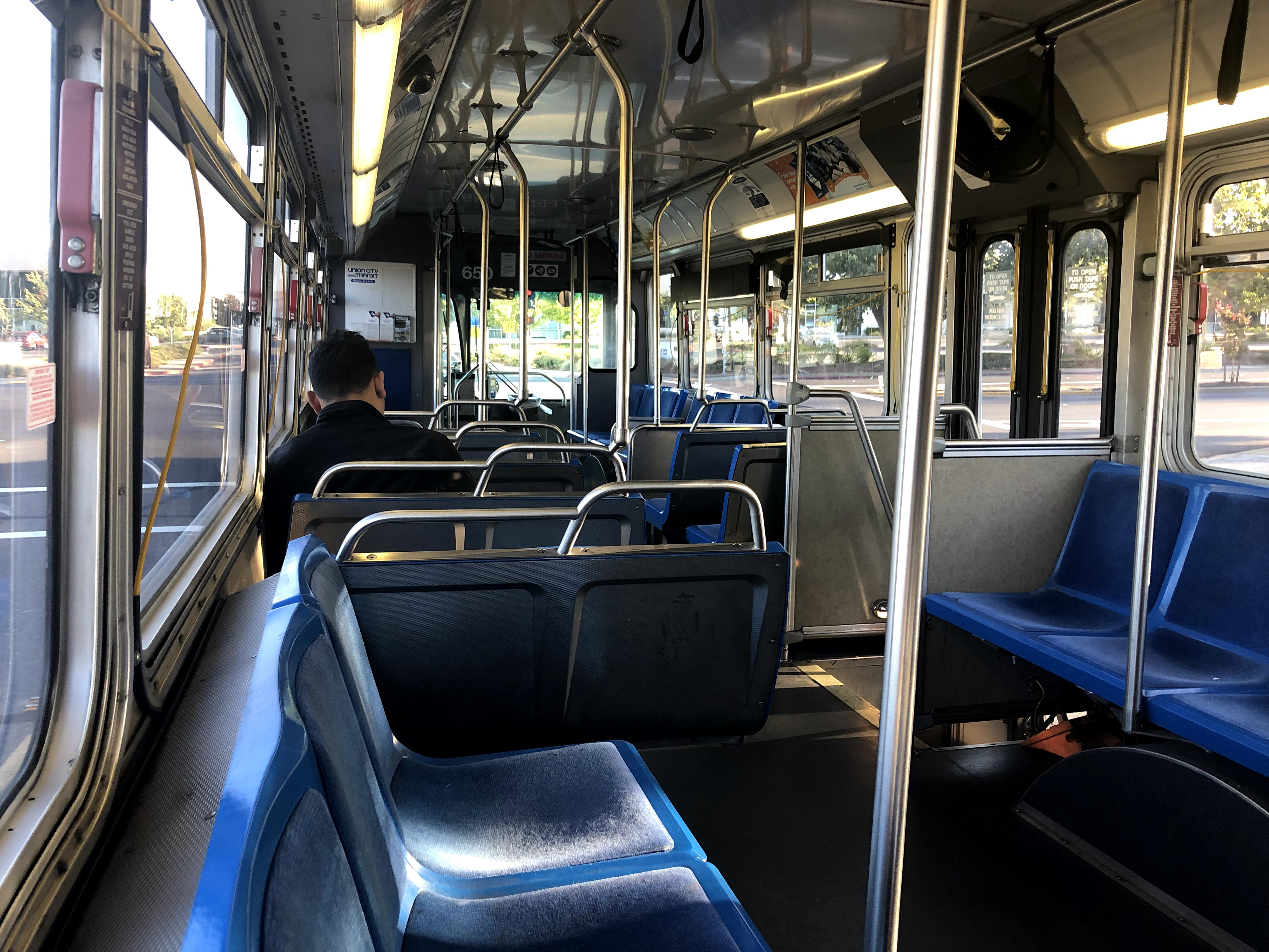 650 is an 2001 Orion V bus that is currently in the reserve fleet. Between May and October 2019, it was out, mostly on the 2/8 lines. This photo was taken on line 2.